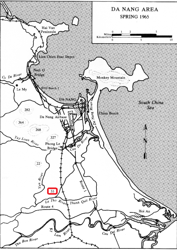 Map of Da Nang area of Vietnam with location of Hill 55 marked in red.